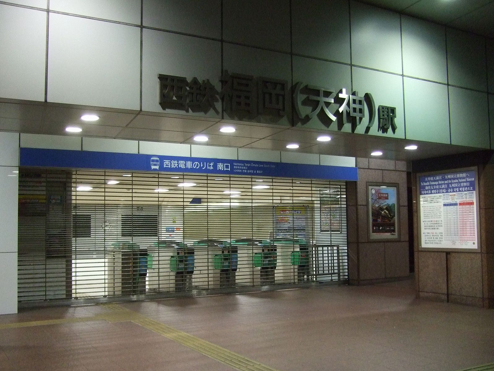 Nishitetsu Fukuoka Tenjin Station South Gate in midnight (at 2:41 A.M.). It is closed with a shutter.